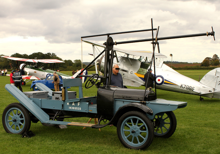 Ford Model T Chassis Aero Engine Starter 1920 from Shuttleworth Collection